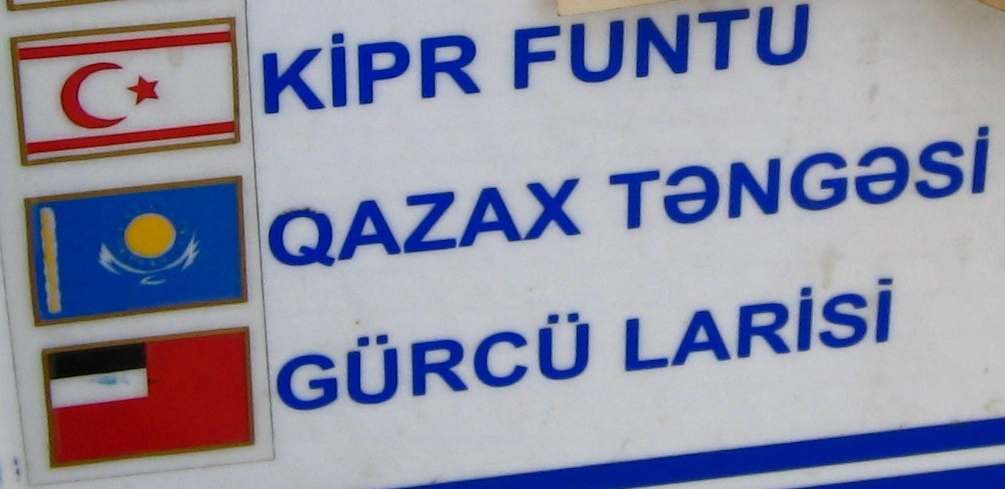 The flag of Northern Cyprus instead of Southern Cyprus near the name of Cypriot pound (in the Azerbaijani language). Baku, Azerbaijan, September 2005.